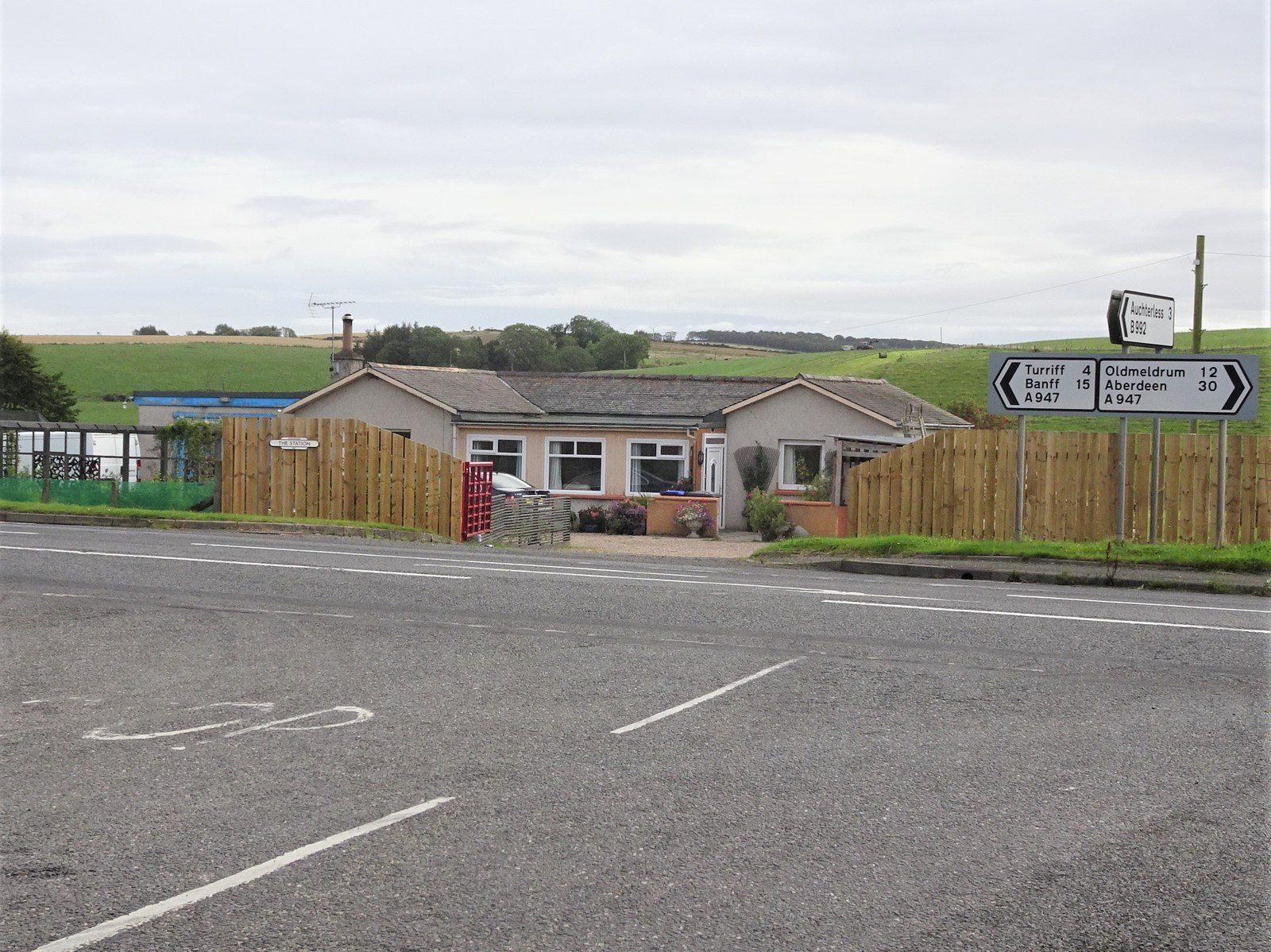 Auchterless railway station (site), AberdeenshireOpened in 1857 by the Banff Macduff & Turriff Junction Railway, later part of the Great North of Scotland Railway, on the line from Inveramsay to Macduff, this station closed to passengers in 1951 and completely in 1966. View east at the former forecourt. Behind the building was the platform, left for Turriff and Macduff, right for Fyvie and Inveramsay. The road sign also shows that the station was 3 miles from Auchterless.